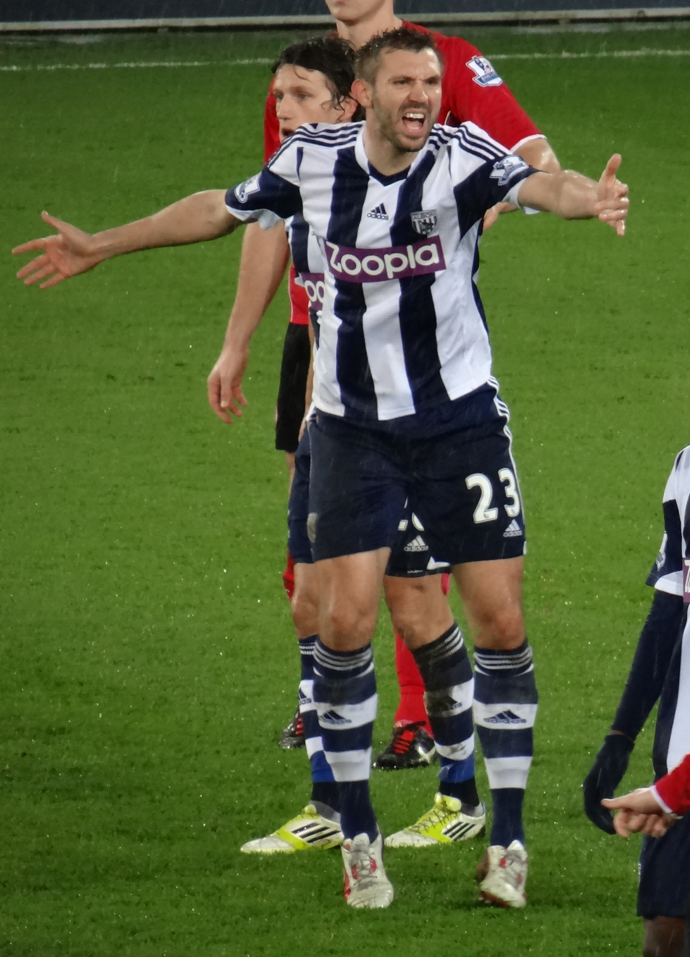 Gareth McAuley playing for West Brom in 2013.